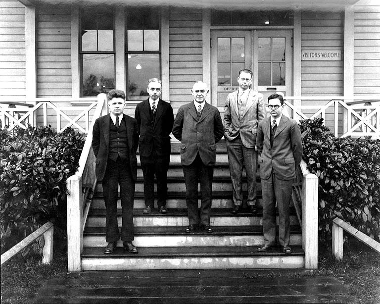 On verso of image: Fisheries Club. Norman Jarvis, Donald Crawford, John N. Cobb, Clarence Parks, Leonard Schultz . Howard A. Harsch, Studio of Photography. 4312 University Way. Me. 1160 Subjects (LCTGM): Clubs--Washington (State)--Seattle Subjects (LCSH): University of Washington. College of Fisheries; Portraits--Washington (State)--Seattle; Jarvis, Norman D.; Crawford, Donald; Cobb, John N. (John Nathan), 1868-1930; Parks, Clarence; Schultz, Leonard